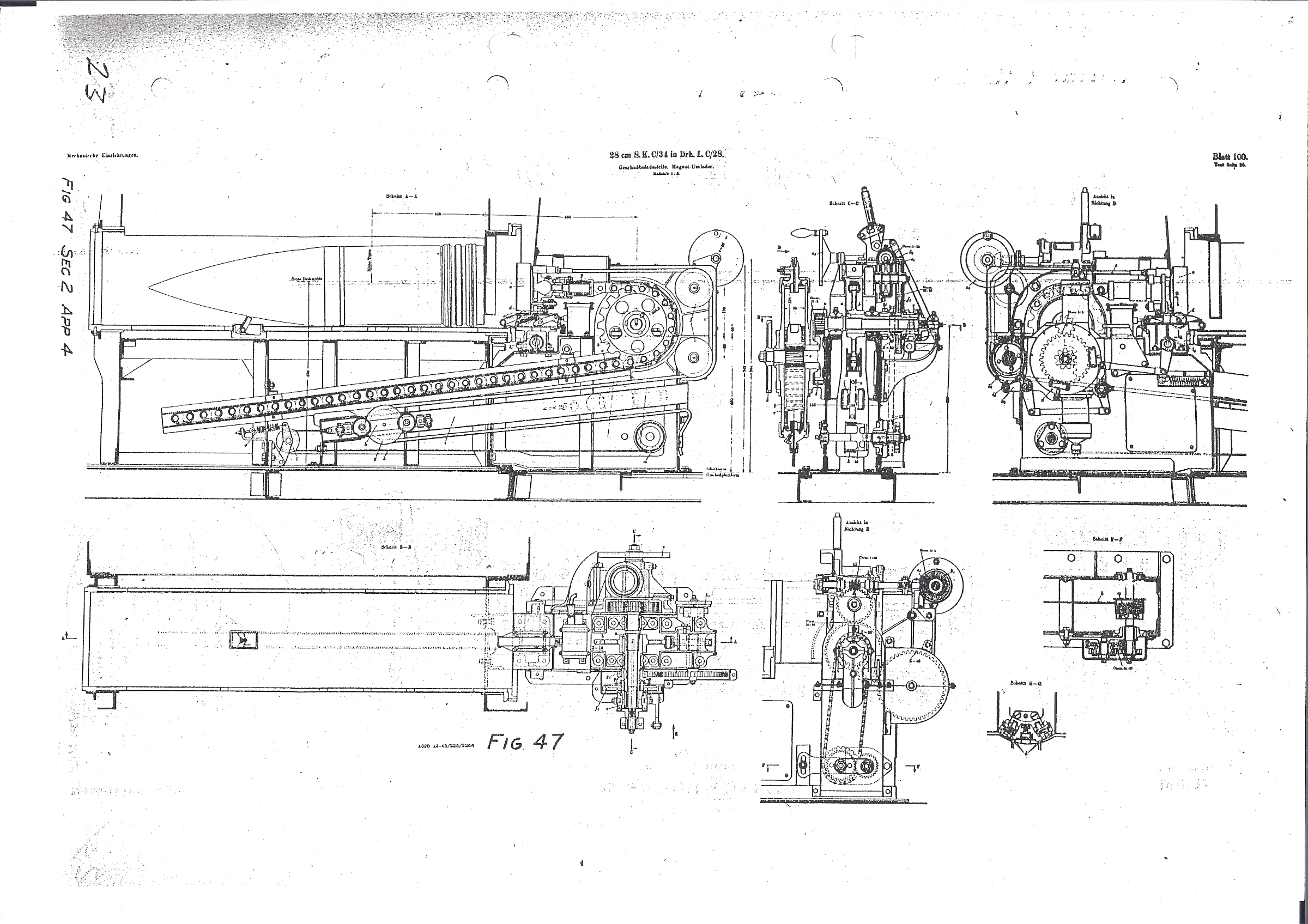 This is a drawing of the «Magnet-umlader» (magnetic reloader) for the German 28 cm Schiffskanone C/34 gun. The C/34 guns were placed in the Dhr. C/28 gun turret, originally on the ships «Scharnhorst» and «Gneisenau». «Gneisenau» was damaged in an aerial attack in 1942, and her guns were placed ashore, at costal batteries. Two of the turrets, with at total of six guns, were placed in Norway, at Austrått and Fjell, of which the one at Austrått still remains as a museum today. The third turret was placed in Holland.